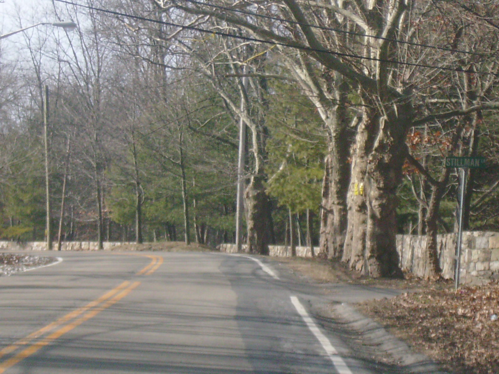 NY 448 at the intersection with Stillman Lane.